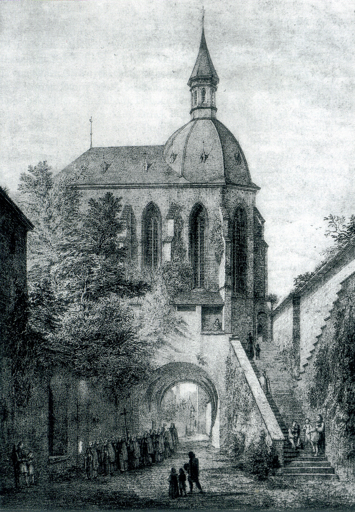 Domenico Quaglio (the Younger, 1786 - 1837) Old hospital chapel (1305) of Oberwesel, Germany